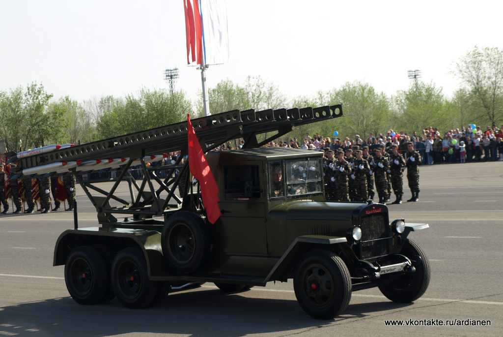 BM-13-16 on a ZiS-6 chassis on a prade in Russia.